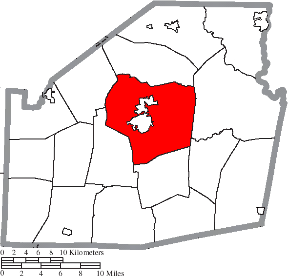 Map of the municipal and township boundaries of Highland County, Ohio, United States, as of the 2000 census, with the location of Liberty Township highlighted. Township borders are shown only in unincorporated areas in order to differentiate incorporated and unincorporated areas more clearly.